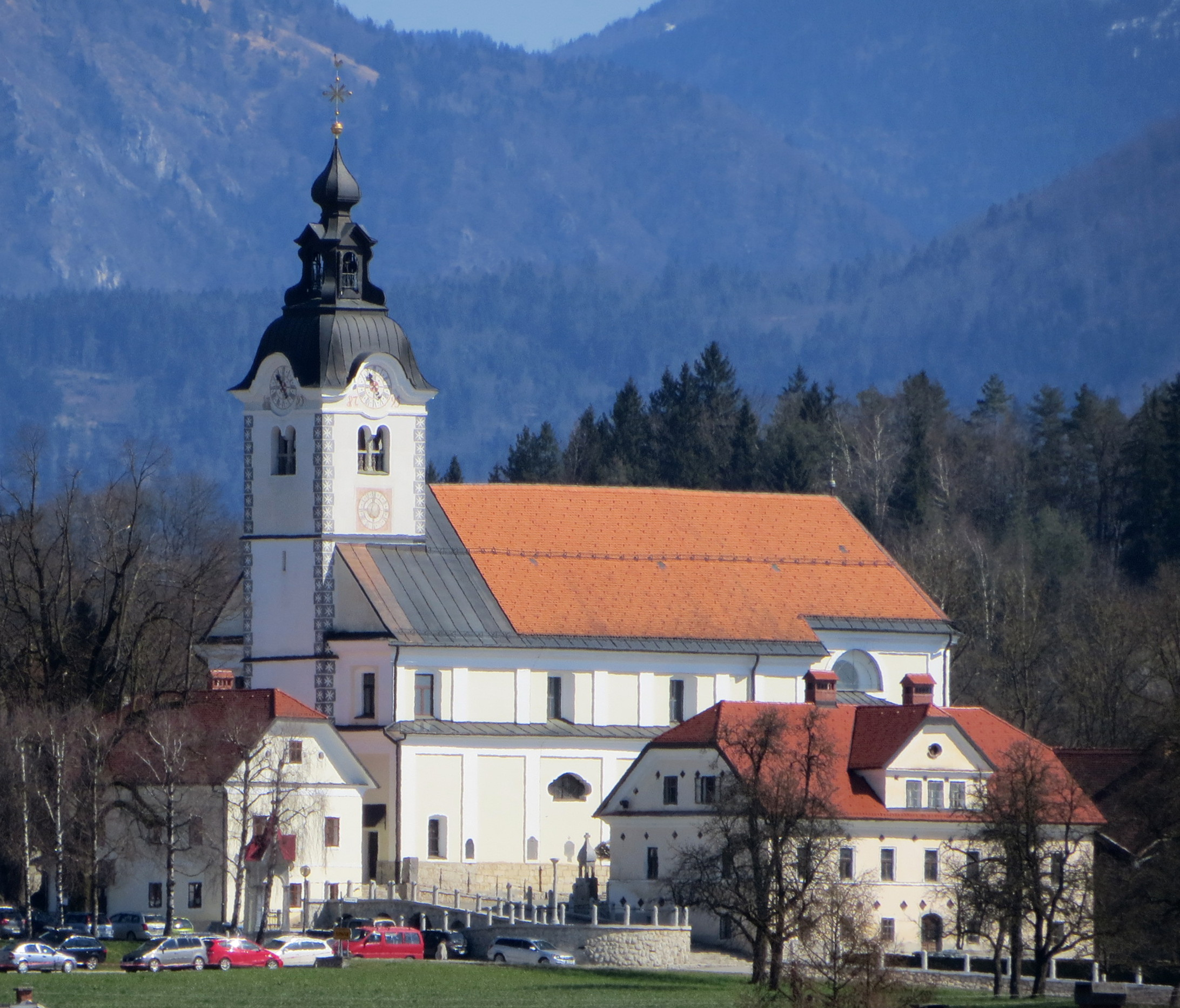 Saint Peter's Church in Komenda, Municipality of Komenda, Slovenia